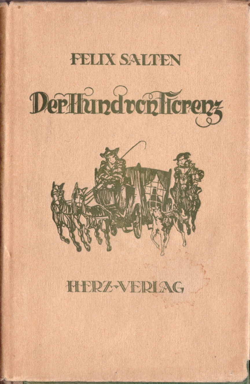 The cover (dustjacket) of Felix Salten’s book Der Hund von Florenz (The Hound of Florence).